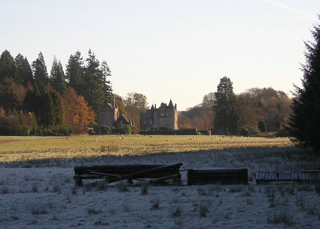 Duntreath Castle, Strath Blane.